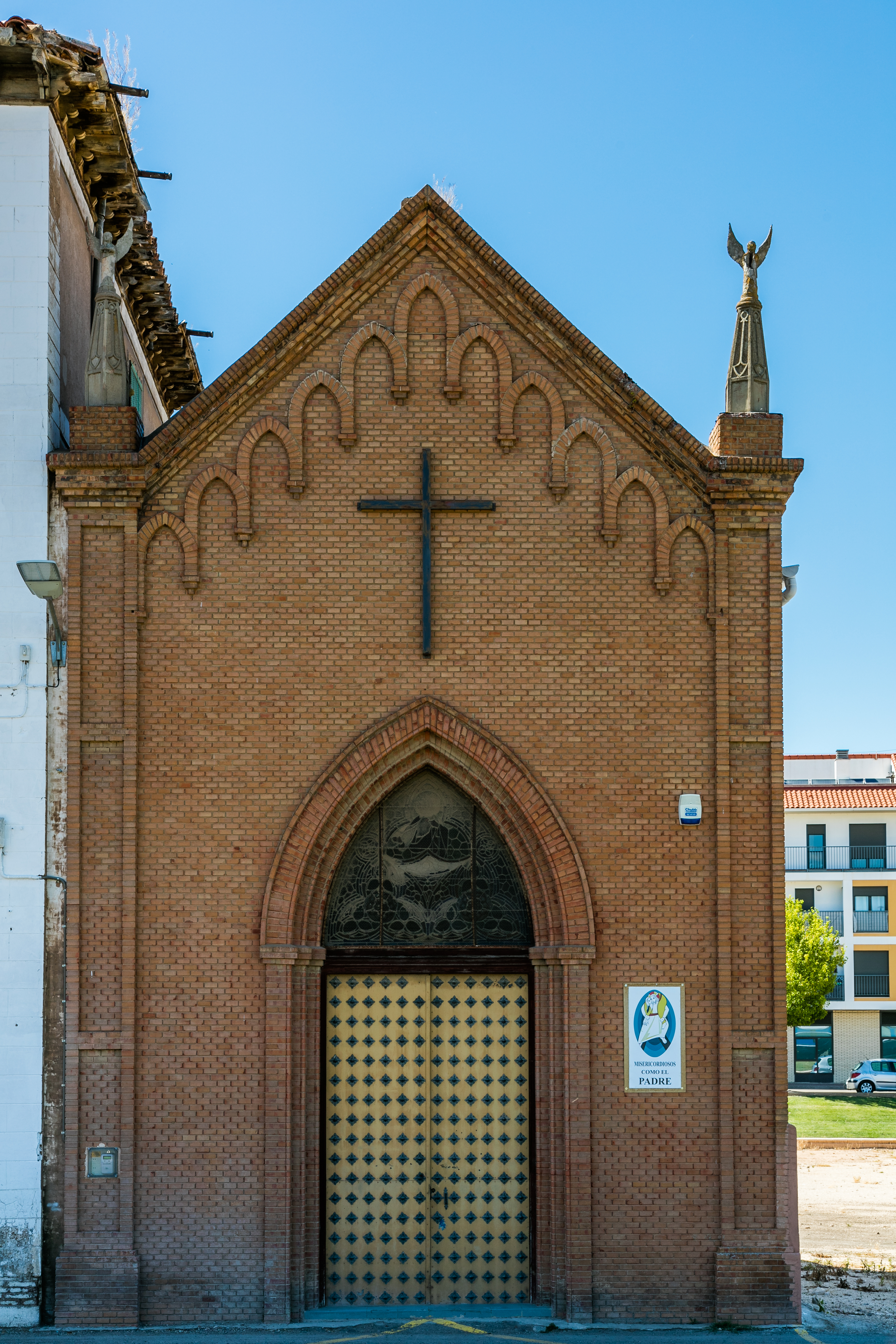 Chapel of the Lady of Carmen, Calatayud, Spain